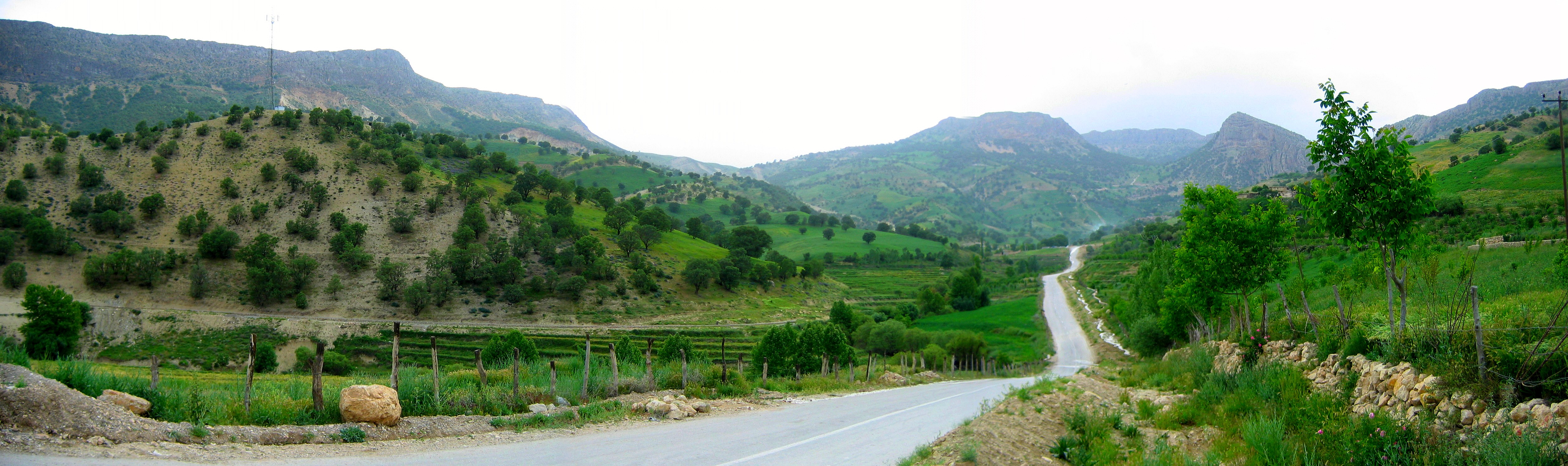 View of the road leading to the Ghandoman Wetland